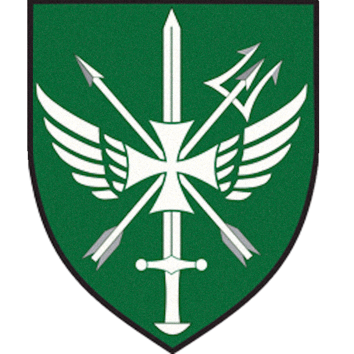 Raw version of current gsof emblem